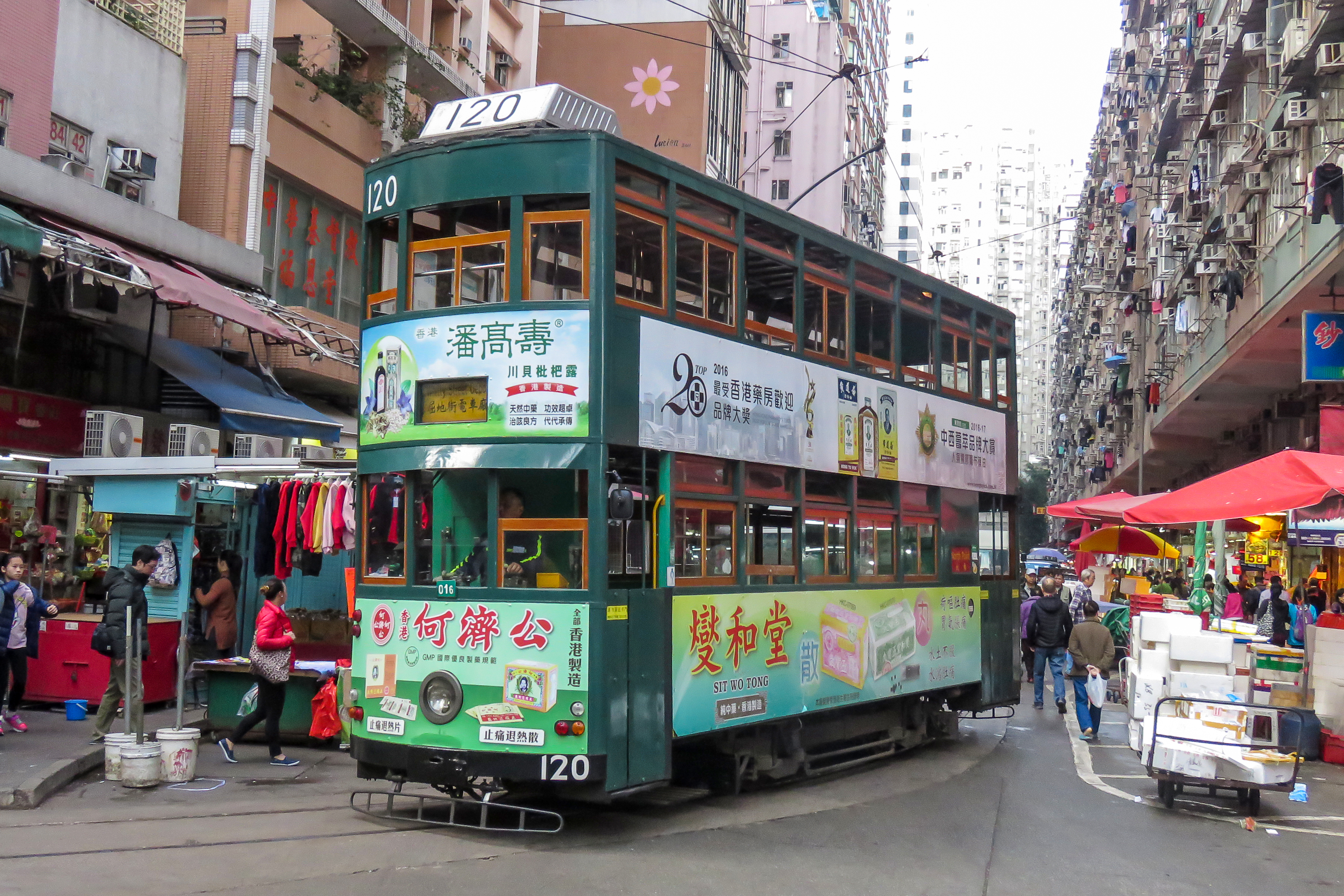 Retro tram passing the crowded street market on a Saturday morning... It just happened that this fellow runs the North Point service, so I boarded it immediately after spotting at Ice House Street. Some said that Chun Yeung Street is the Hong Kong version of "Maeklong Railway Market", and on this street, man run faster than trams!